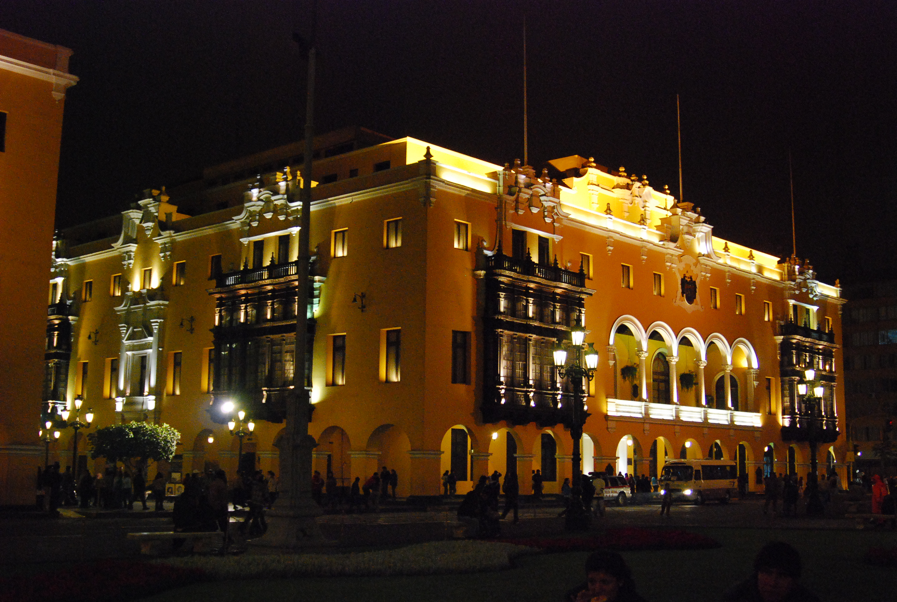 La Municipalidad de Lima, the City hall of Lima